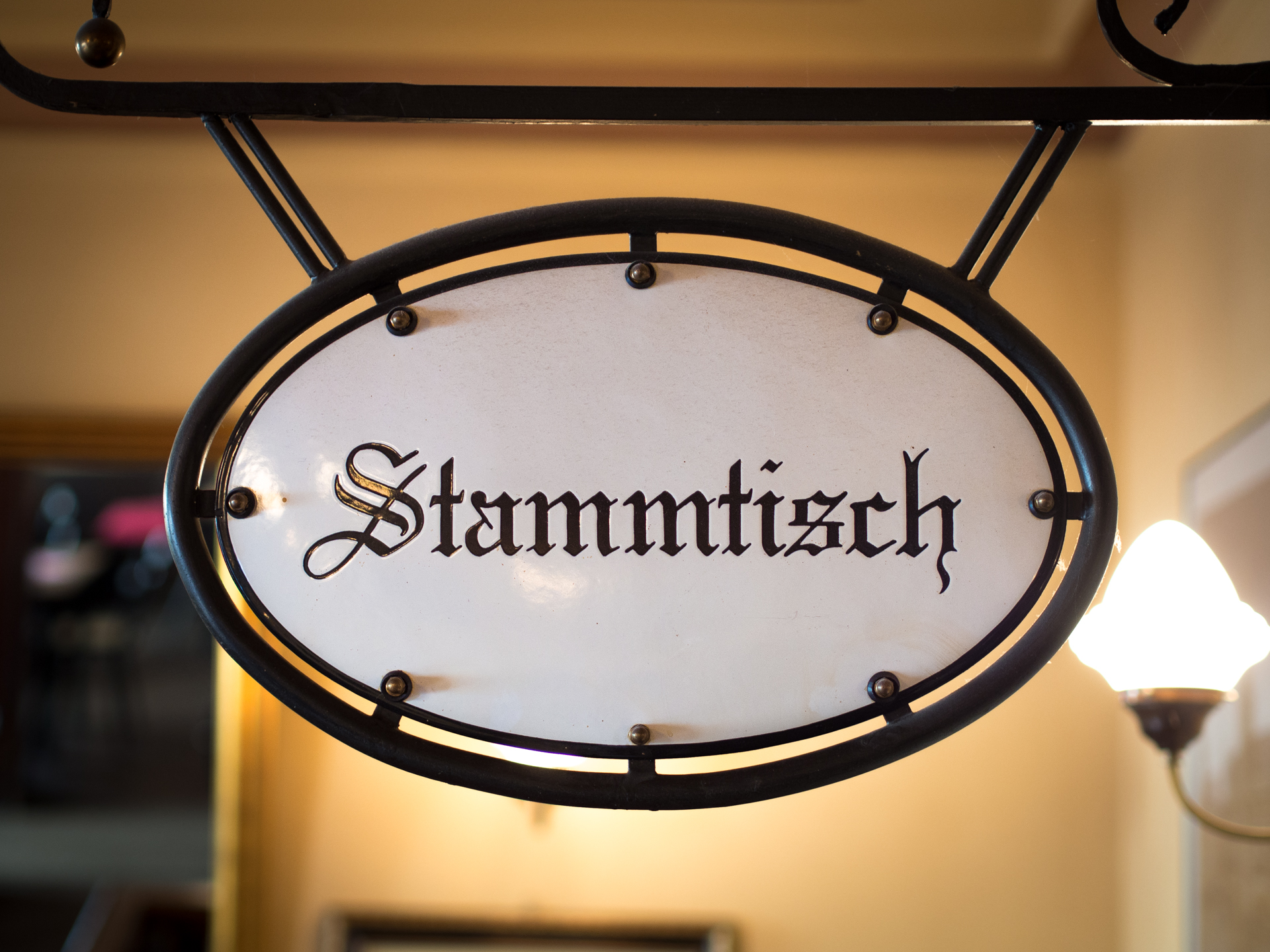 This sign at a pub in Munich with the German word "Stammtisch", denotes that the table beneath the sign is more or less reserved for regular customers.